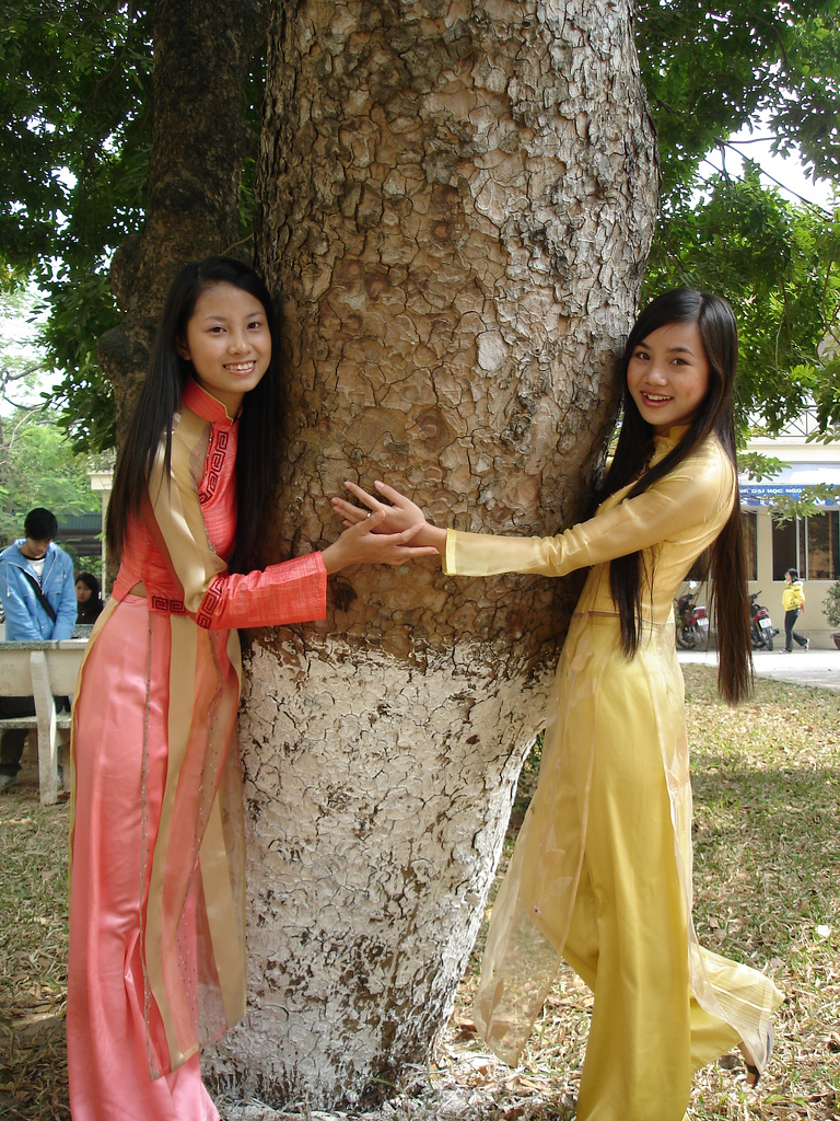 Two Vietnamese young women wearing Áo dài.